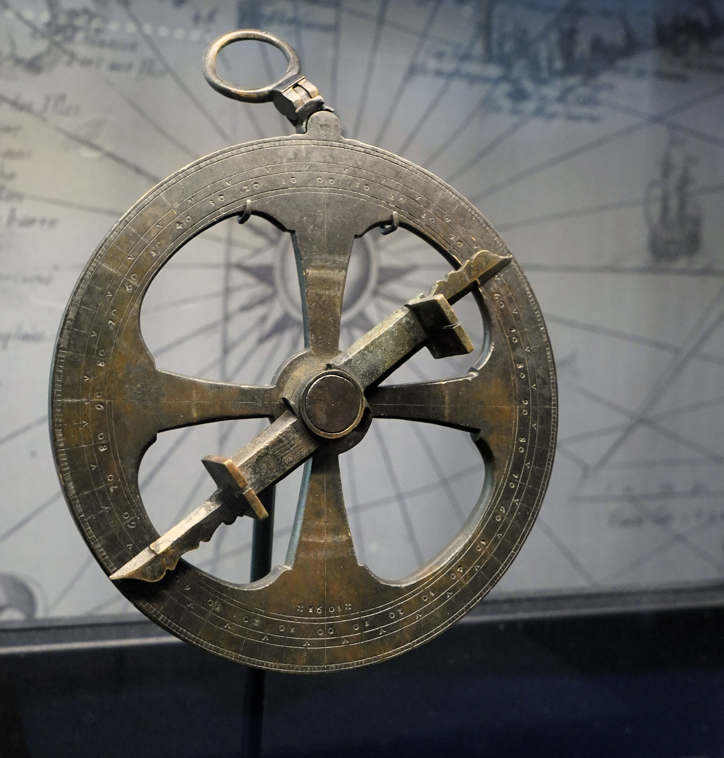 This authentic astrolabe was made in France in 1603. It was reportedly lost during Champlain's expedition to the Outaouais region in 1613. In August 1867, Edward George Lee, a teenager, accidentally discovered it in the ground under a felled tree near Green Lake, also known as Astrolabe Lake (across from Renfrew County, Ontario). Made in 1603 -- found in 1867; CMC 989.56.1